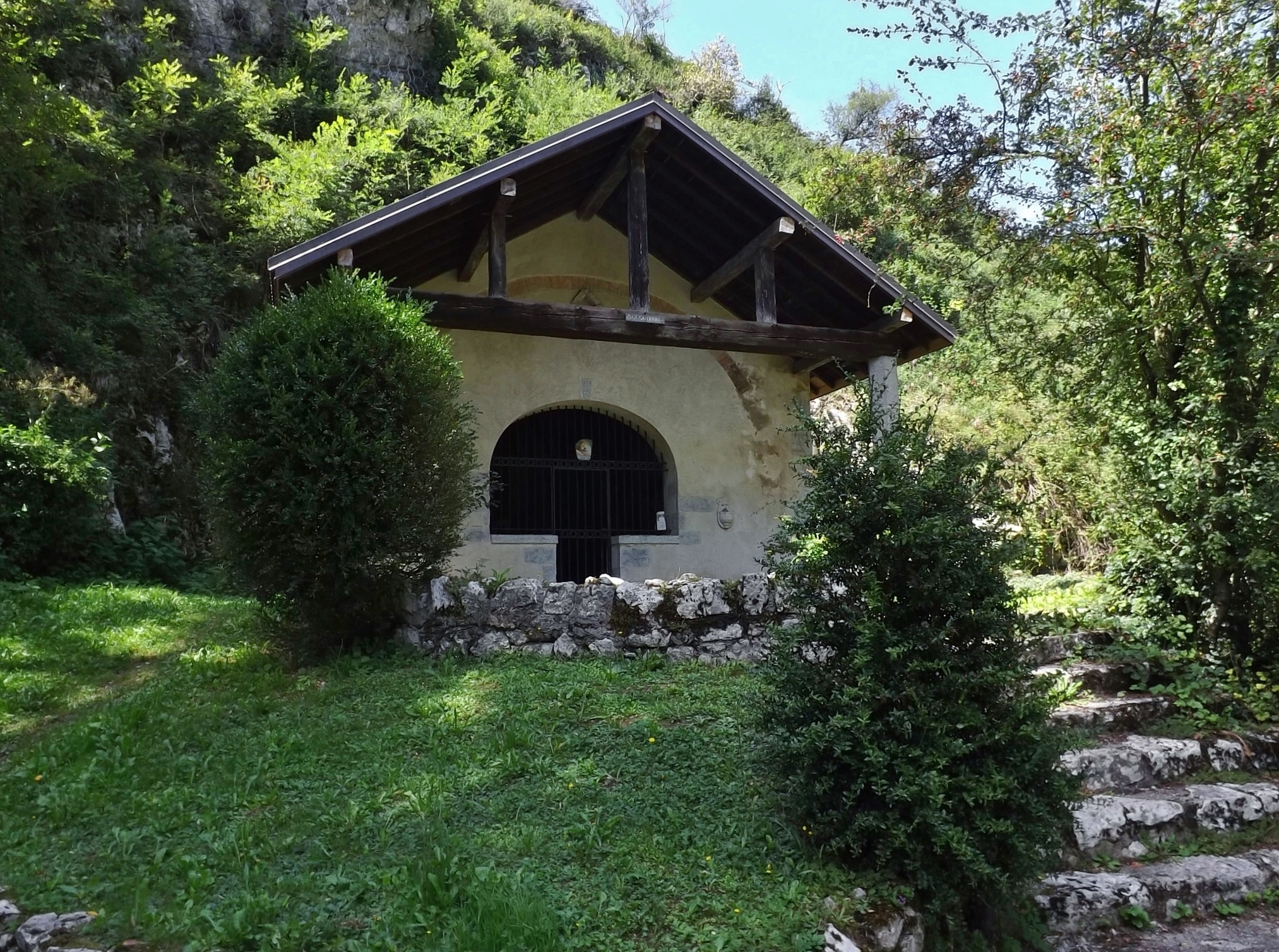 Sight of the chapelle de Saint-Saturnin chapel, in Saint-Alban-Leysse near Chambéry, in Savoie, France.